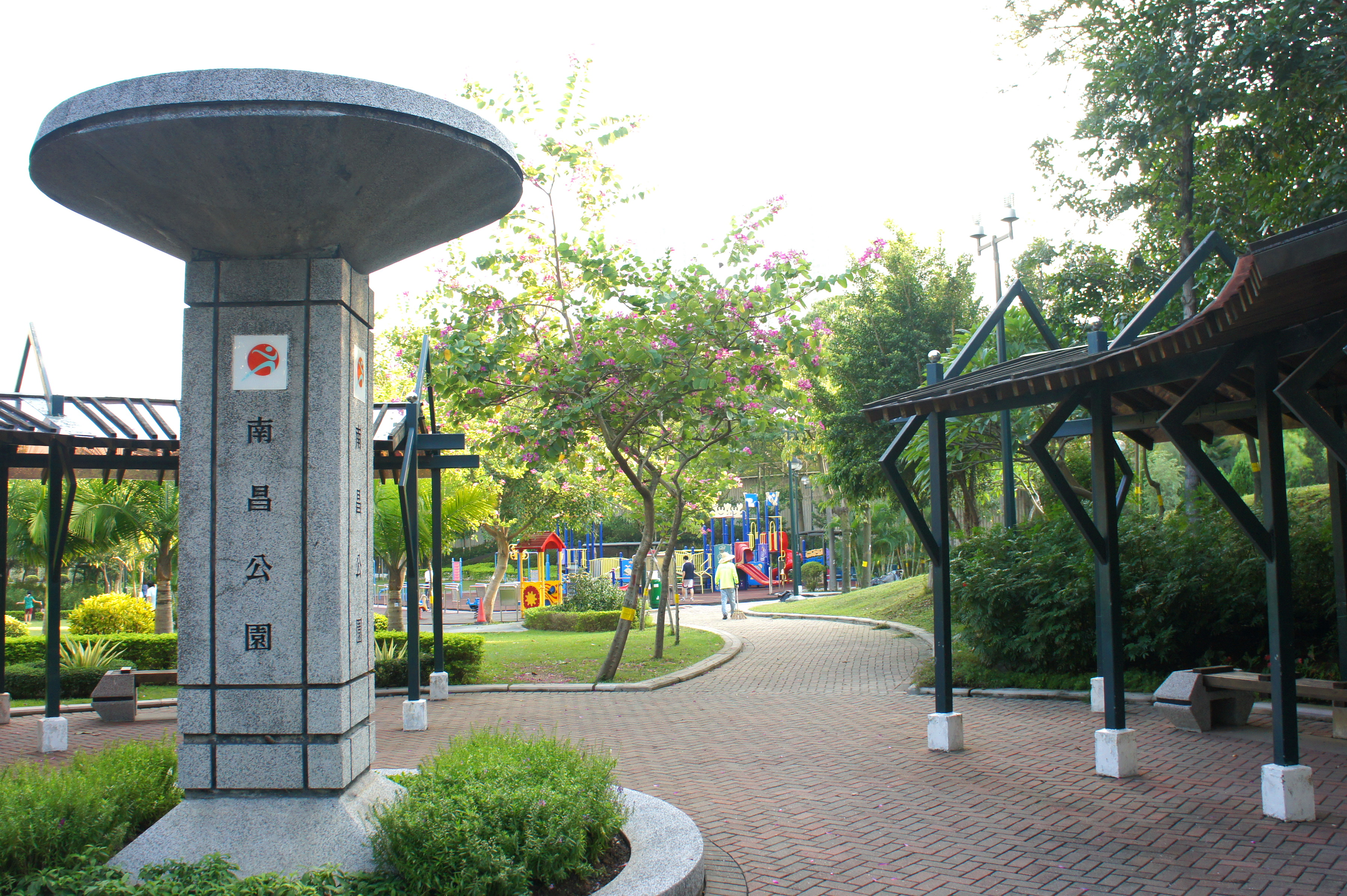 Nam Cheong Park, Sham Shui Po, Kowloon, Hong Kong.